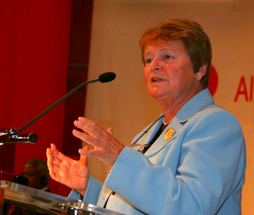 Gro Harlem Brundtland. Gro Harlem Brundtland, former prime minister of Norway and director-general of the World Health Organisation. Photo is taken at ”The Congress of the Norwegian Labour Party” 2007.